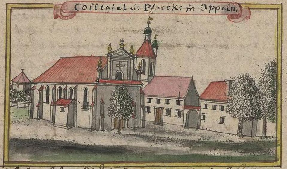 Cathedral in Oppeln